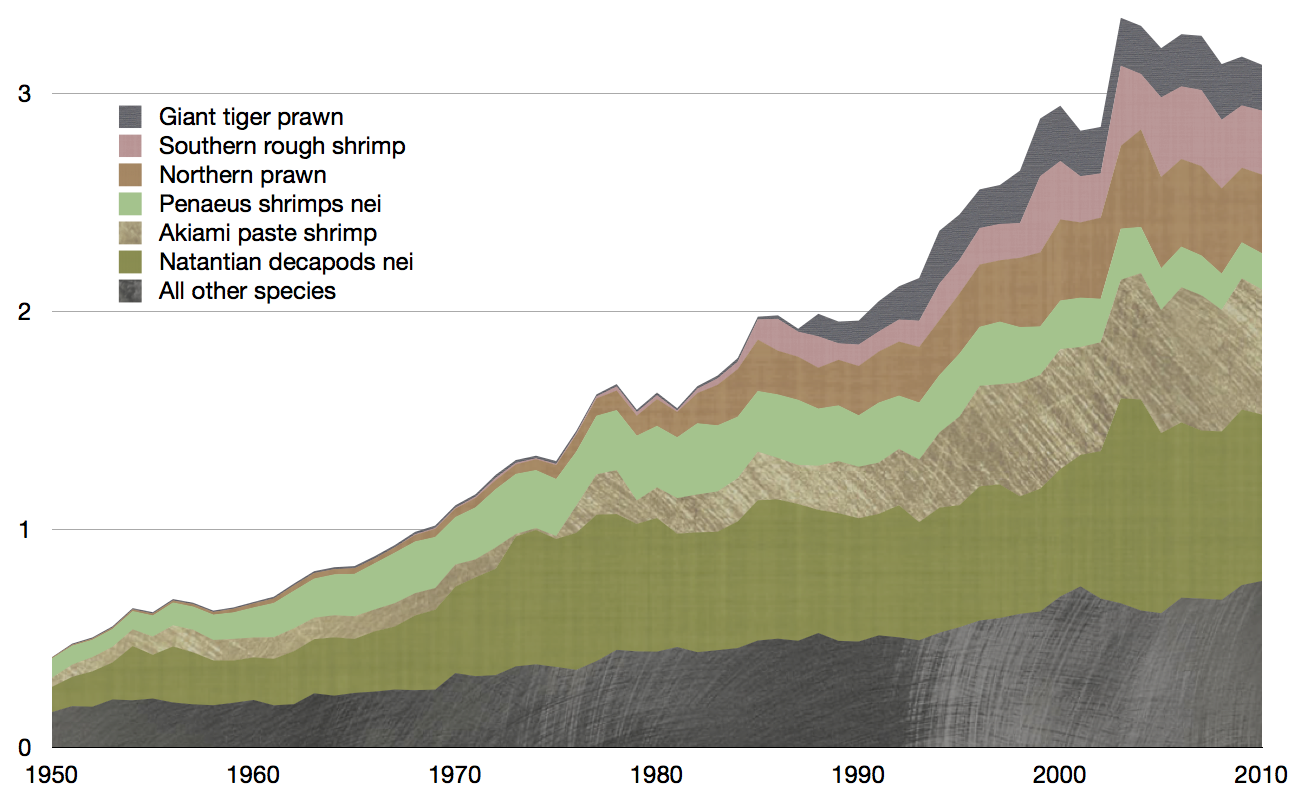 Global capture of wild shrimp and prawn species in million tonnes, 1950–2010, as reported by the FAO. Based on data sourced from the FishStat database